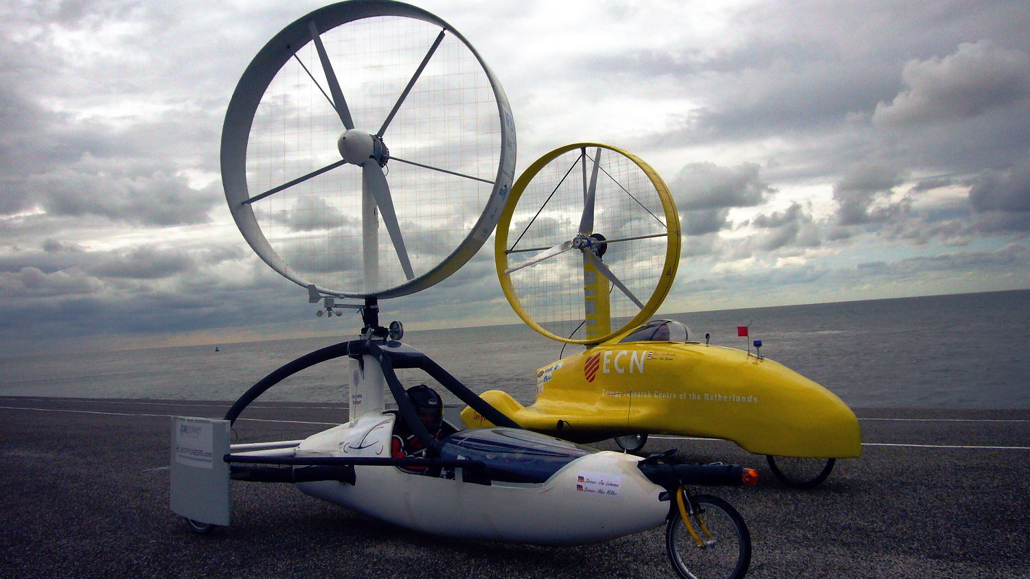 Wind Autos at the Aeolus Race: First Place InVentus Ventomobile (Uni Stuttgart, in front), second place ECN Impulse (background)